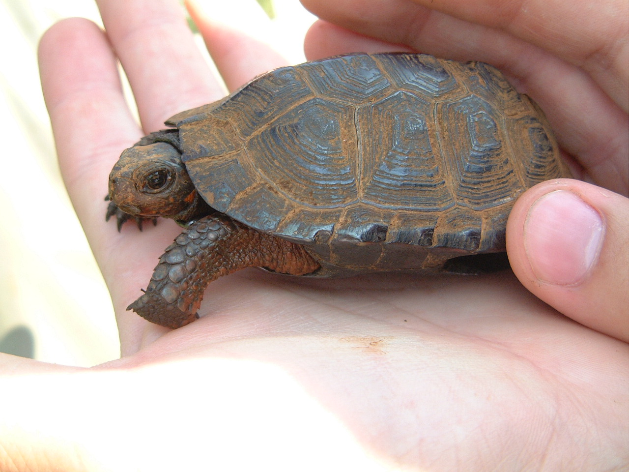 Getting a good photographic reference. The small yellow "ears" make this species distinguishable. (Glyptemys muhlenbergii).